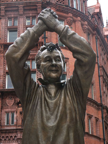 The Brian Clough Statue in Nottingham, paid for by a fund-raising campaign by his fans. Unveiled by Mrs Barbara Clough on November 6th, 2008, in front of a crowd of more than 5,000 fans.